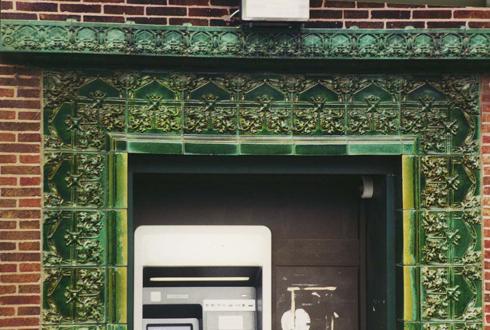 Purdue State Bank